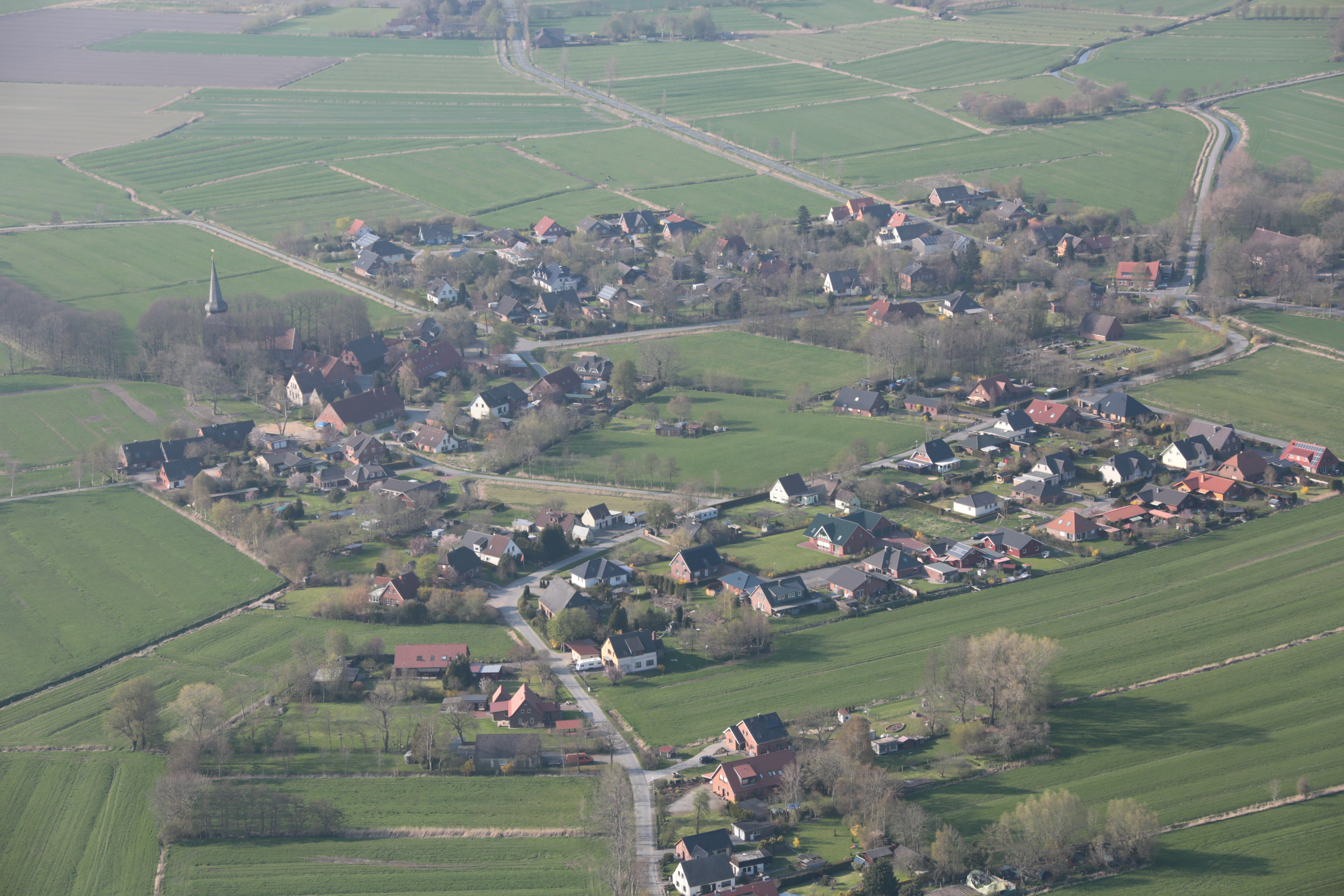 Fotoflug von Nordholz-Spieka nach Oldenburg und Papenburg This photo was taken by Alchemist-hp. If you use one of my photos, an email (account needed) or a message or direct to: my email account would be greatly appreciated. Please note the license terms. Other licensing terms can get discussed, too. This file is copyrighted and has been released under a license which is incompatible with Facebook's licensing terms. It is not permitted to upload this file to Facebook.